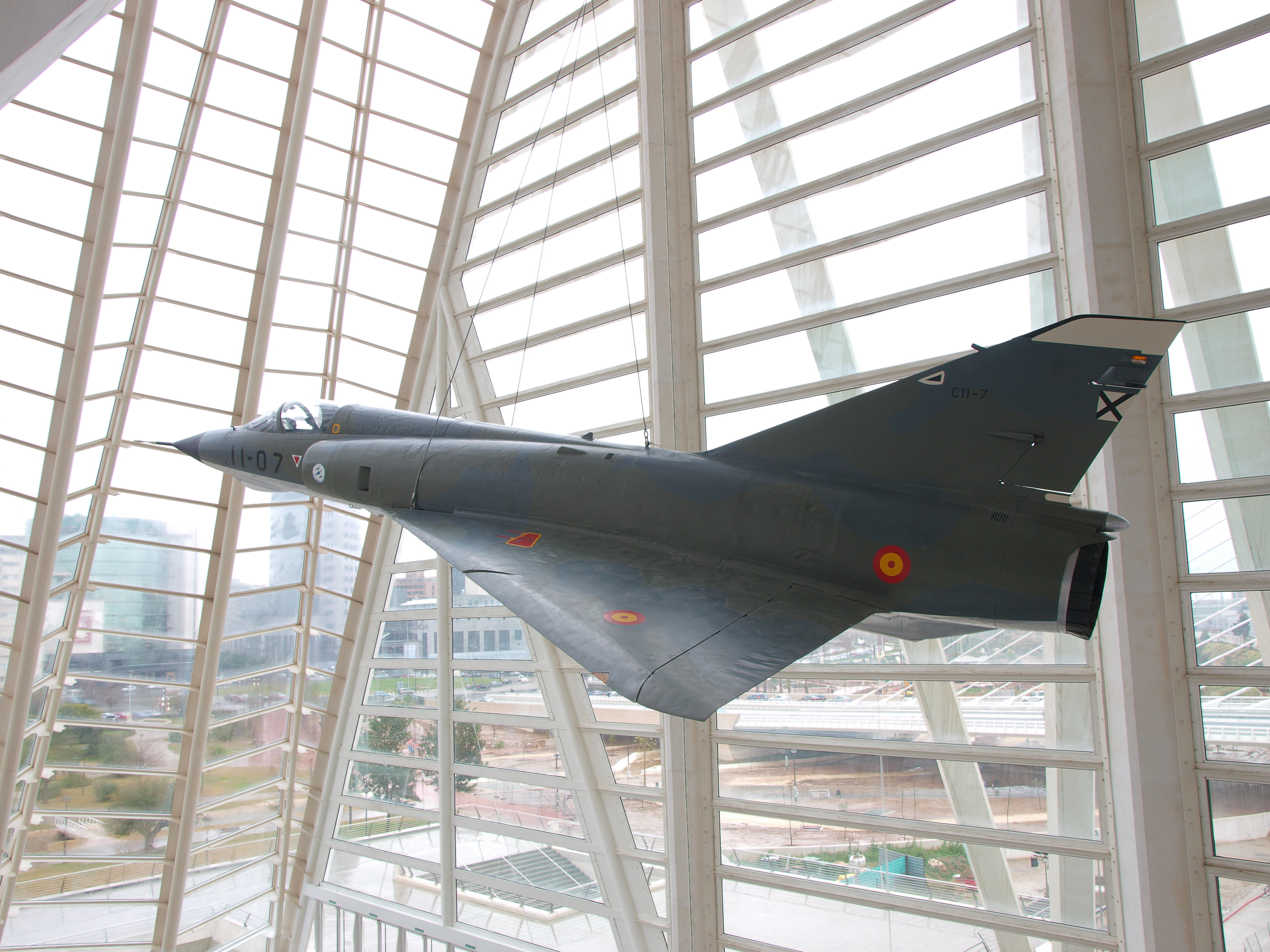 Spanish Air Force's Dassault Mirage IIIE, now at exhibition in the Museo de las Artes y las Ciencias (Art & Science Museum) in Valencia (Spain)